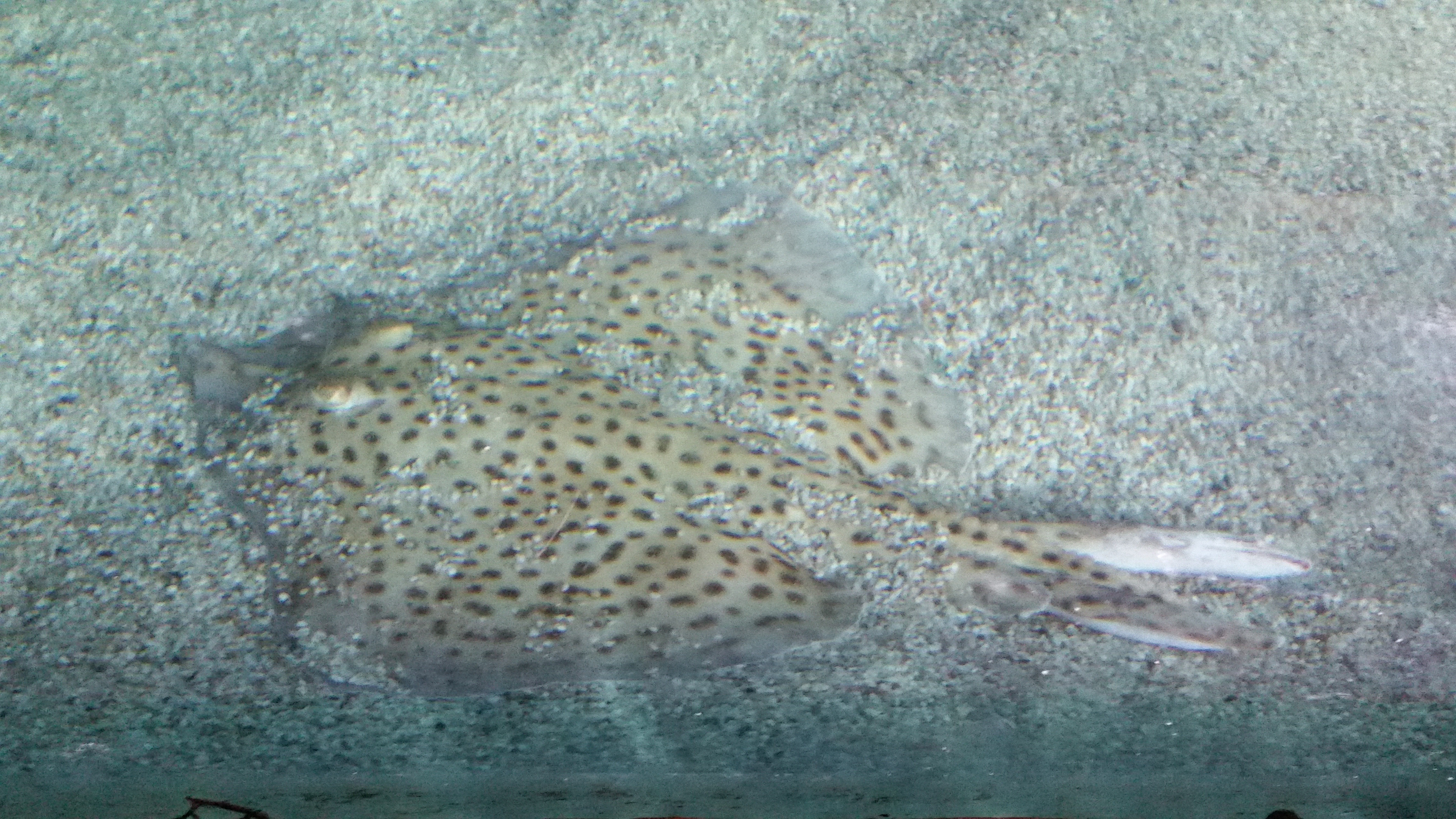 Winter skate (Leucoraja ocellata) in Southend-on-Sea aquarium, England.